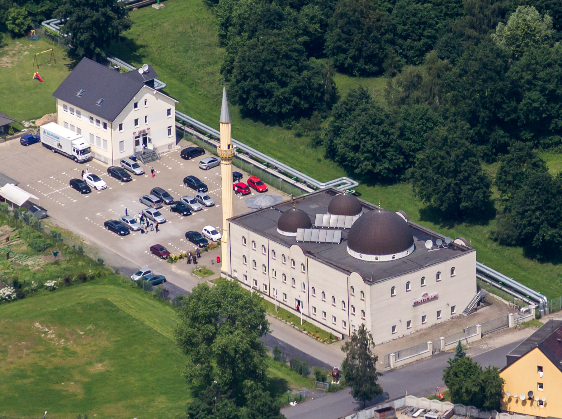 Yunus-Emre-Moschee, Heessen, Hamm, North Rhine-Westphalia, Germany